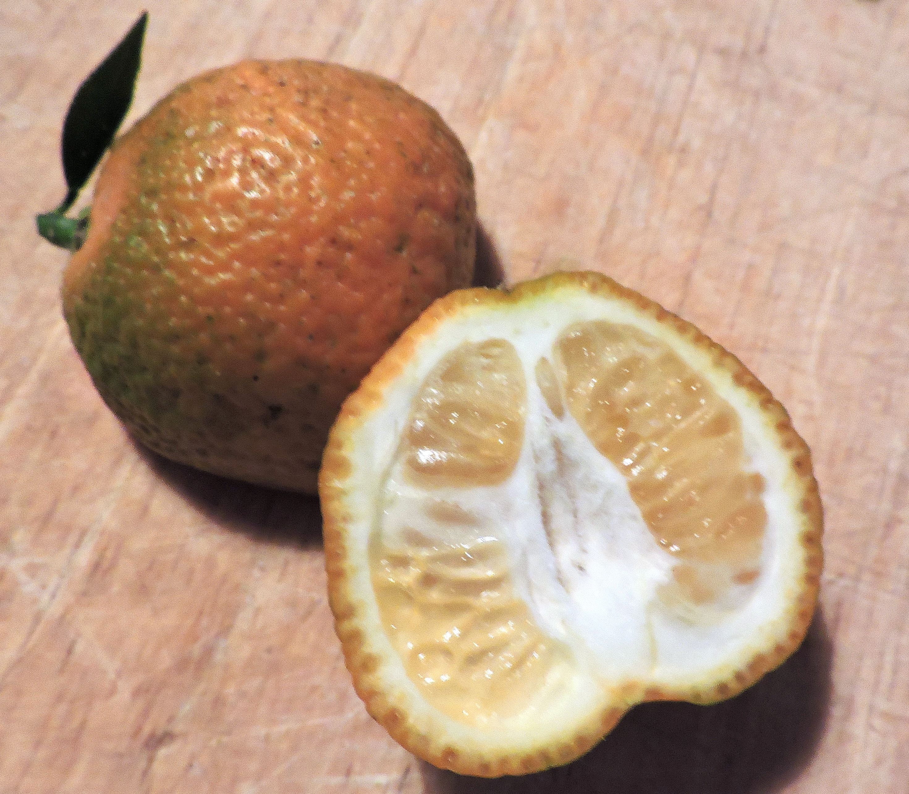 Chinotto (Citrus 'Myrtifolia) from Sicily